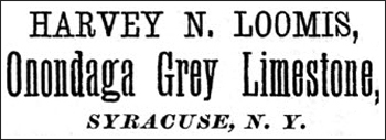 Harvey N. Loomis — Onondaga Grey Limestone, Syracuse, N.Y. Limestone quarry and supplier (defunct) for Onondaga Formation limestone.